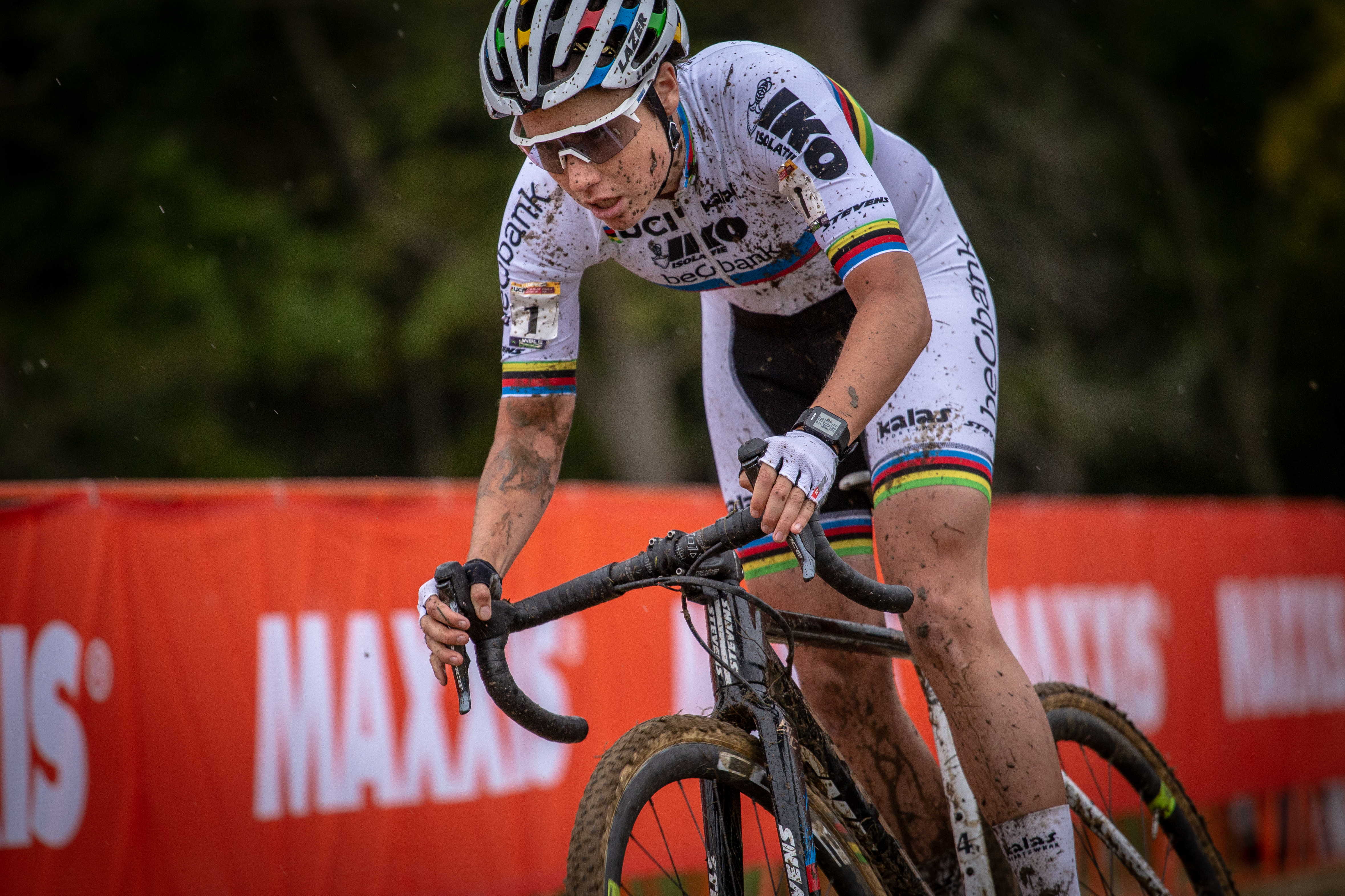 World Champion Sanne Cant mid-race. Photos from the 2018 Jingle Cross Cyclocross World Cup races in Iowa City. Toon Aerts (BEL) of Telenet-Fidea Lions won the men's race while current World Champion Wout Van Aert (BEL) was runner-up. Katie Keogh (USA) of Team Cannondale won the women's race while Evie Richards of Great Britain was runner-up.